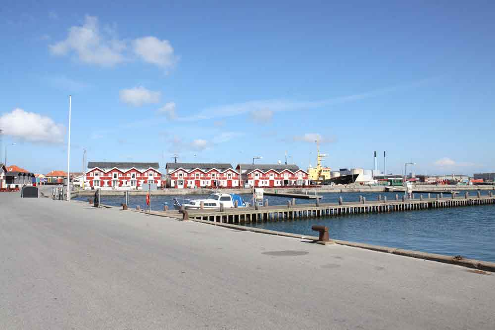 Part of the Danish port Skagen Havn